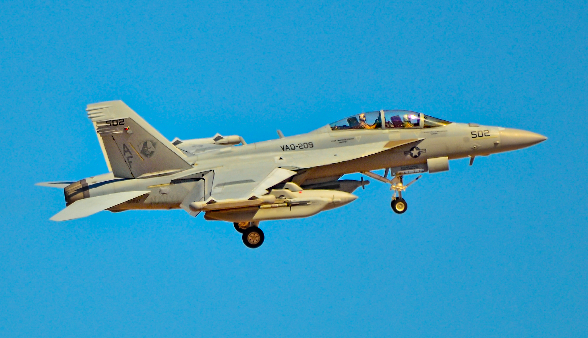 Naval Air Station Whidbey Island, WA. Red Flag 16-3 Las Vegas - Nellis AFB (LSV / KLSV) TDelCoro July 19, 2016